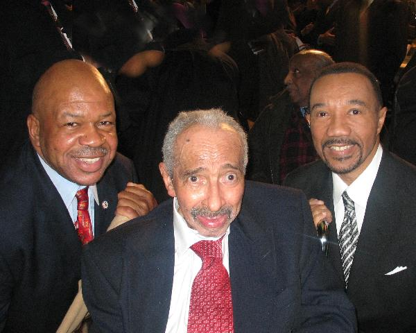 Three generations of 7th District Congressmen (Congressman Elijah E. Cummings, 1996 to present; former Congressman Parren J. Mitchell, 1971 to 1987; and former Congressman Kweisi Mfume, 1987 to 1996) attend the ceremony officially designating the facility of the U.S. Postal Service located at 6101 Liberty Road in Baltimore, Maryland, as the U.S. Representative Parren J. Mitchell Post Office. (January 2007)